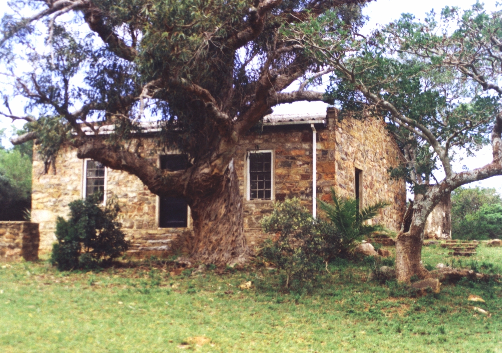 Anglican church Cuylerville-Port Alfred area. (St.Stephens This media shows a South African Protected Site with SAHRA file reference 9/2/009/0014.